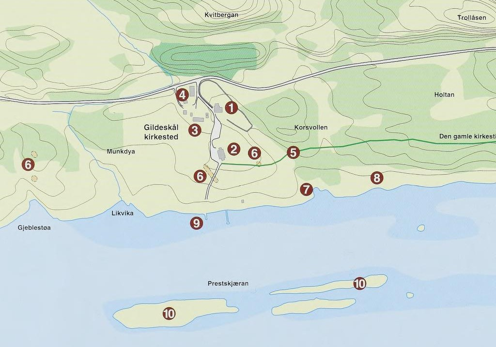 Gildeskaal Church locations